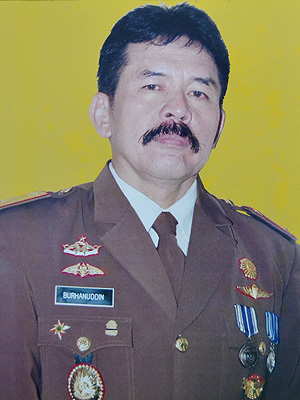 ST Burhanuddin, Head of North Maluku High Prosecutors Office 2007-2009